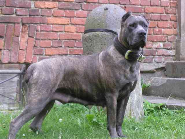 Pictures Of Cane Corso For Cane Corso Gallery @